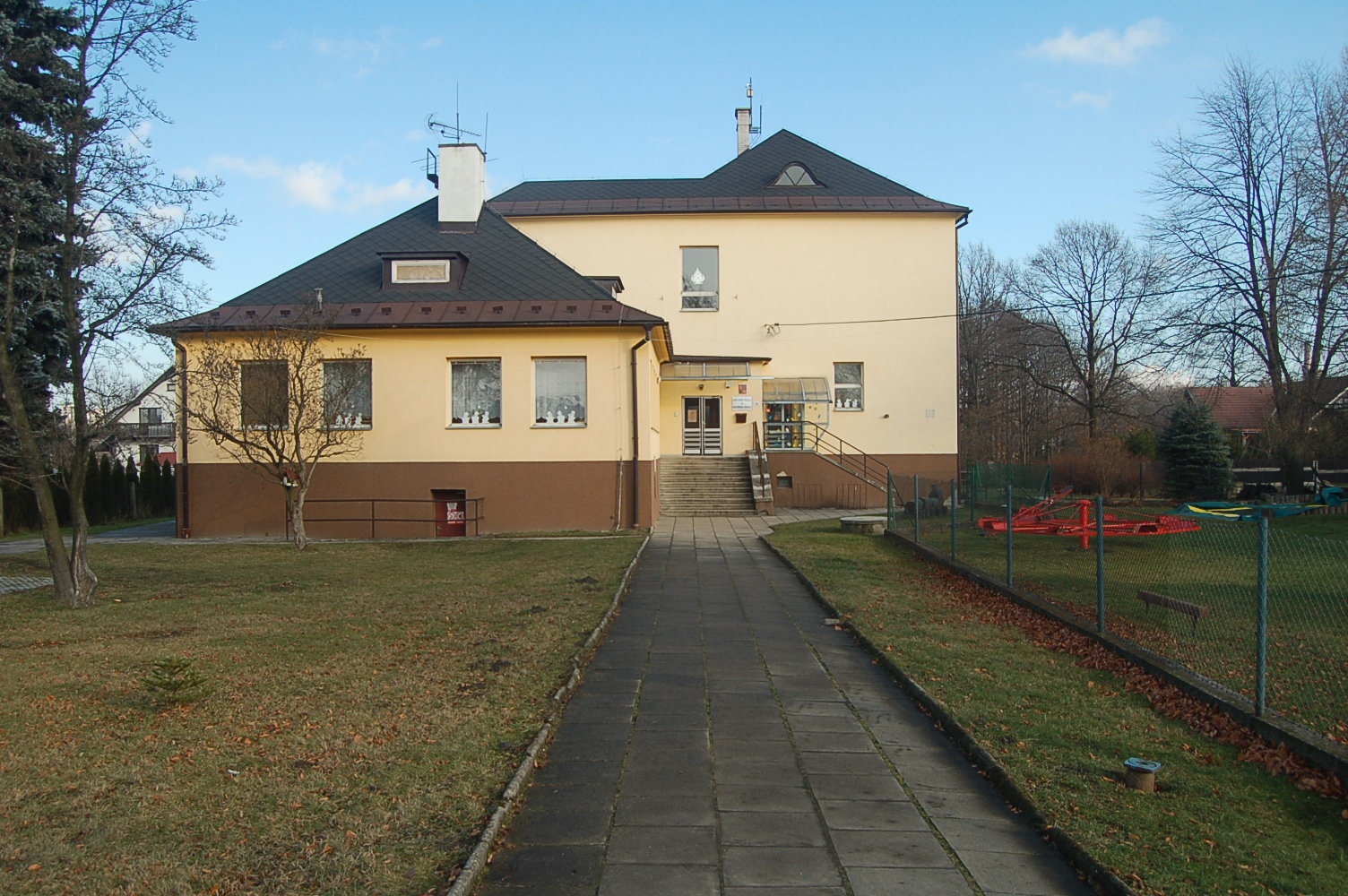 Kunčičky u Bašky, elementary school